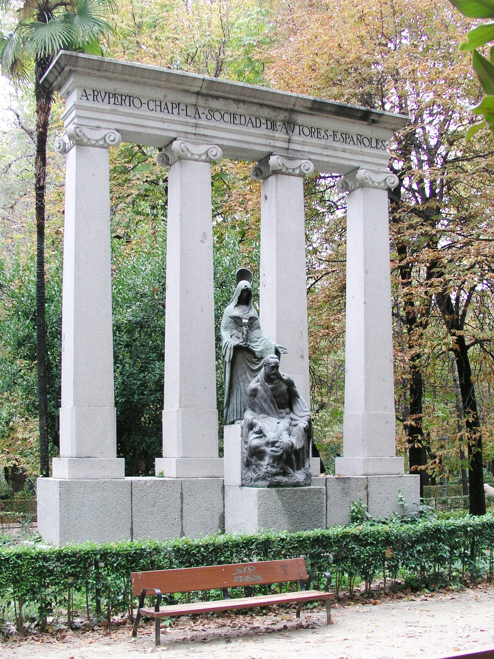 Monument to Ruperto Chapí (1851–1909). Granite and bronze. Measurements: 6.20 x 5.90 x 2.45 metres. Inaugurated in the Retiro Park (Madrid, Spain) in 1921. Sculptures made by Julio Antonio Rodríguez Hernández (1889–1919).